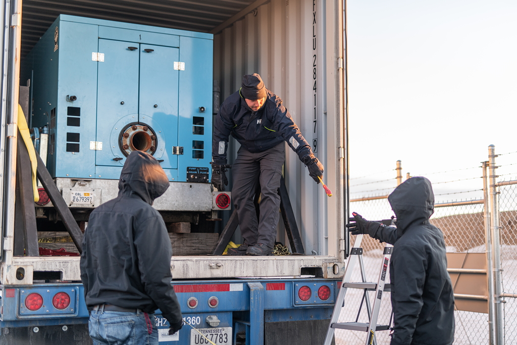 Launch campaign of the first Rocket 3.0 of Astra Space.